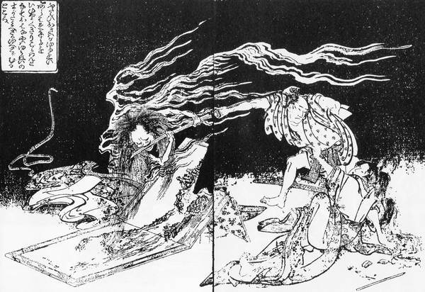 Onryō (怨霊, Vengeful ghost that manifests in physical (rather than spectral) form) from the Kinsei-Kaidan-Simoyonohoshi (近世怪談霜夜星)